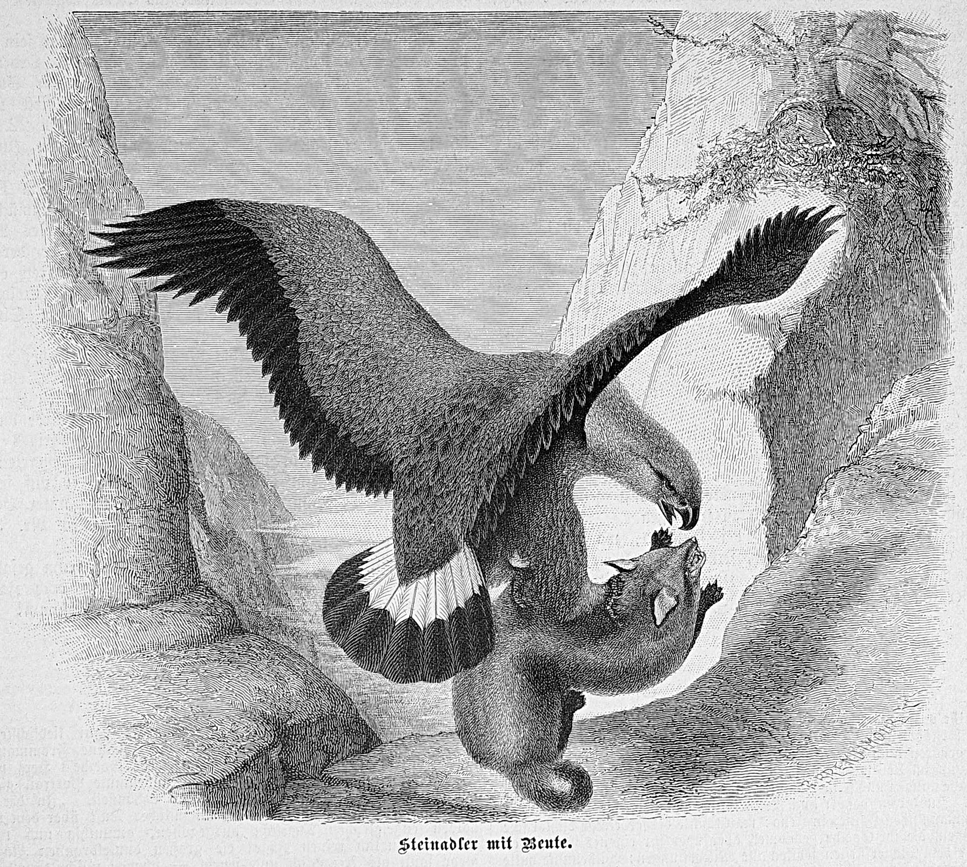 caption: "Steinadler mit Beute."